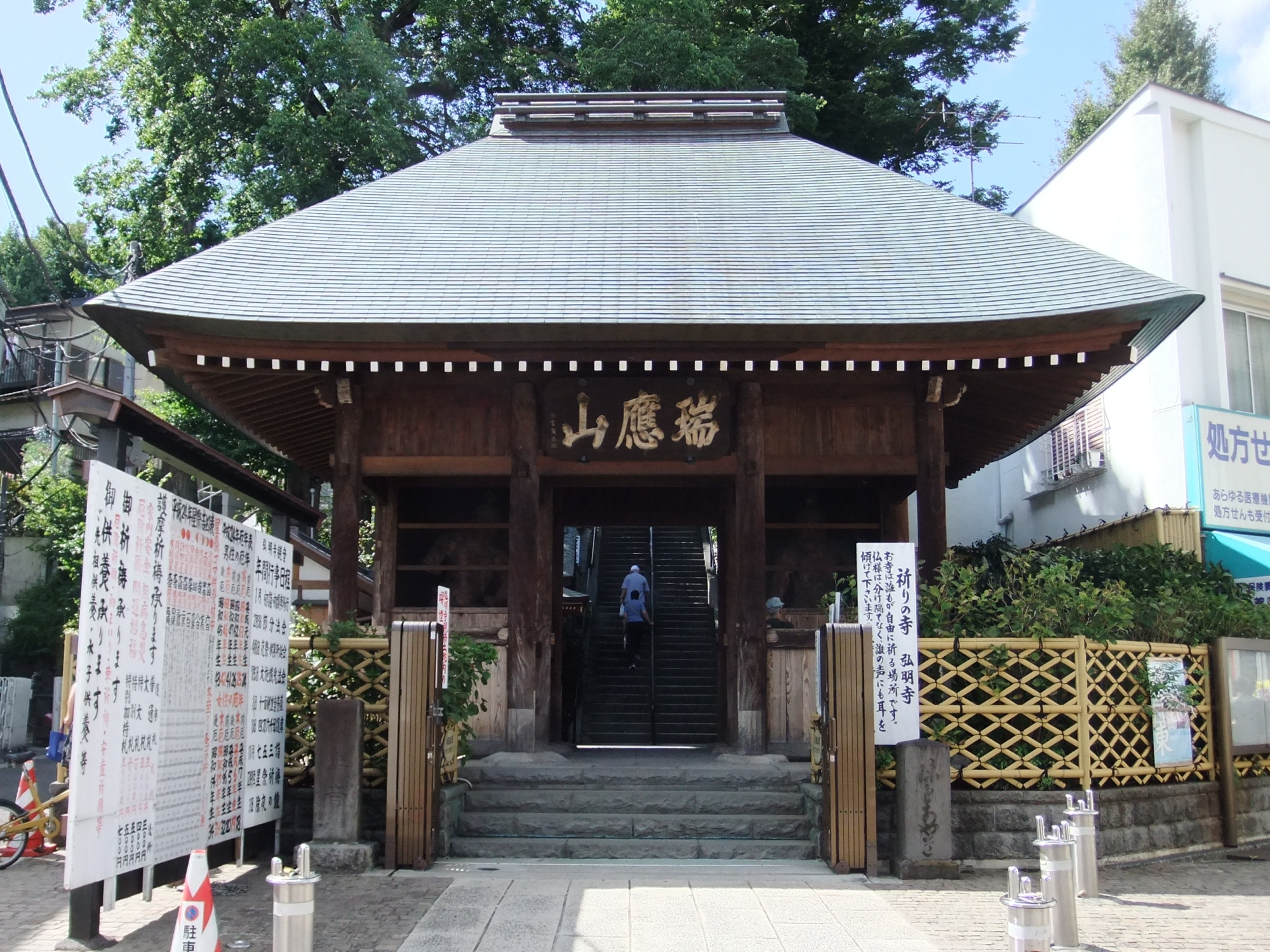 Niōmon gate of Gumyō-ji temple in Yokohama, Kanagawa